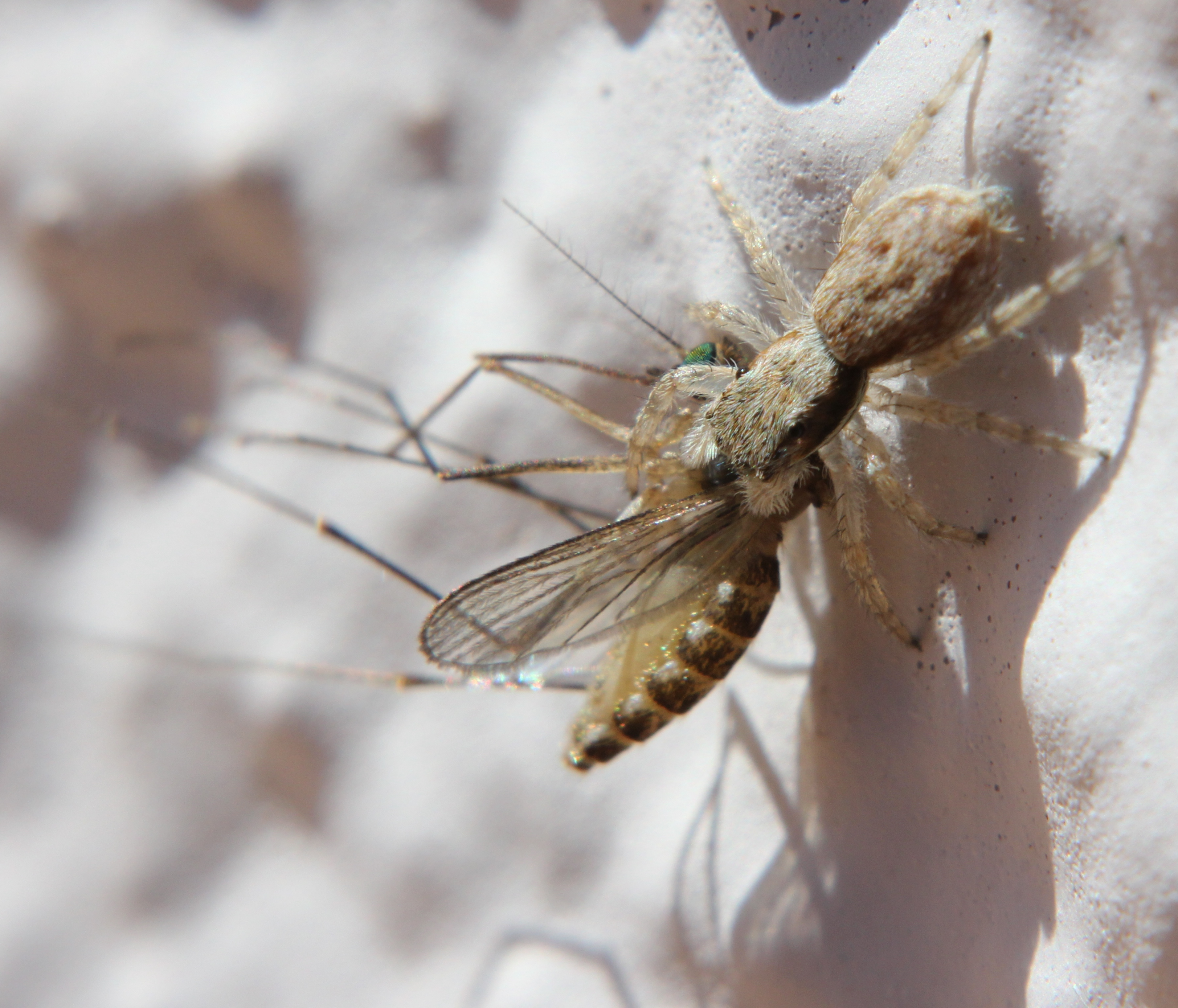 Female jumping spider, probably immature, eating female mosquito, probably Culex species or close relative. Note eyes of both subjects